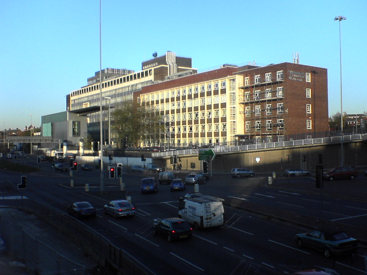 Liverpool John Moores University